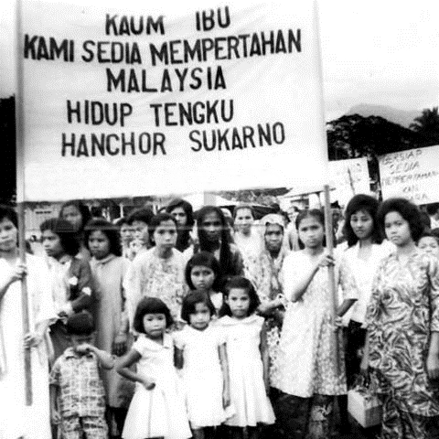 Anti Indonesian infiltration to Malaysia in 1965 by a group of Malay womens.